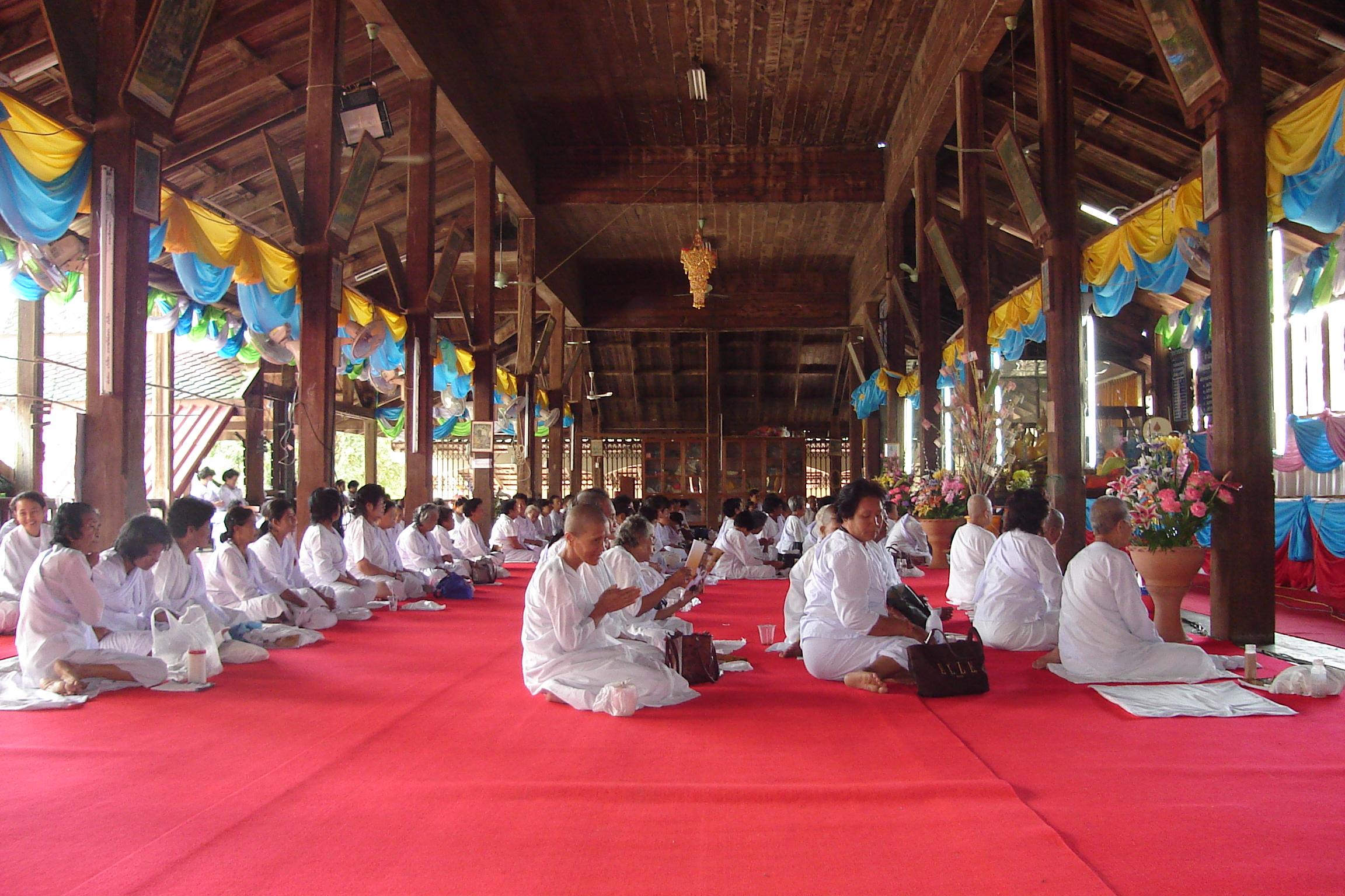 Wat Tha Thong, Mueang district, Uttaradit province, Thailand